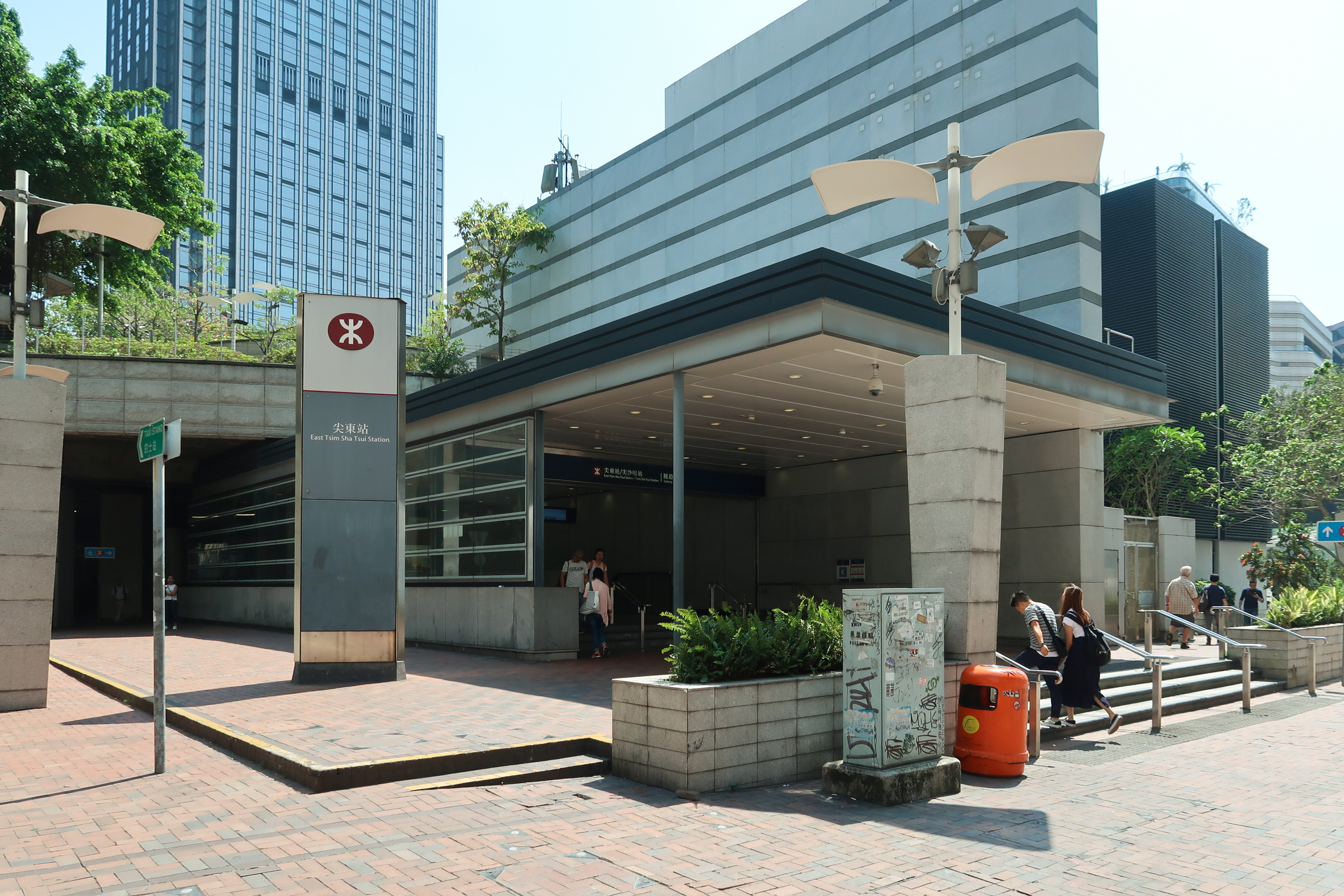 East Tsim Sha Tsui Station Exit K